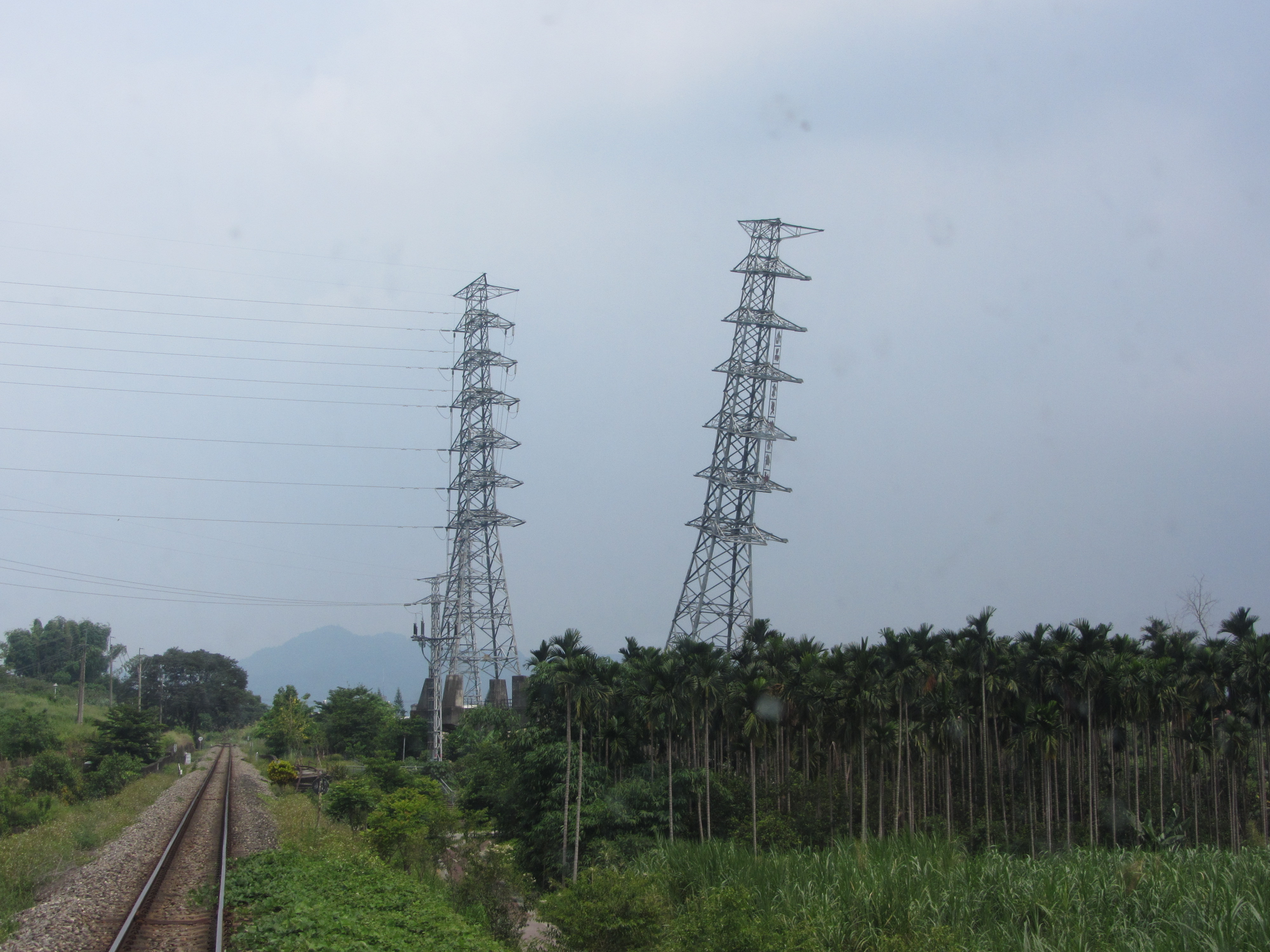 Tilted tower in Nantou due to 921 earthquake, near Zhuoshui station, Nantou.